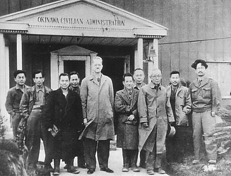 Okinawa Civil Government staff